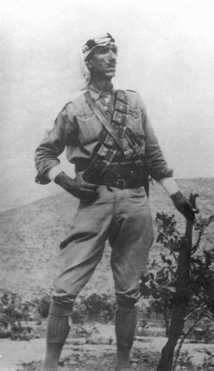 According to the source in "The Zionist Archive", the person is Yusuf Abu Durra, but in comparison to a photograph presented in the book by Ya'akov Shim'oni ("The Arabs of Palestine", 1947, p. 303), this person seems to be Fakhri Abd Al-Hadi, "commander of the Palestinian squad".